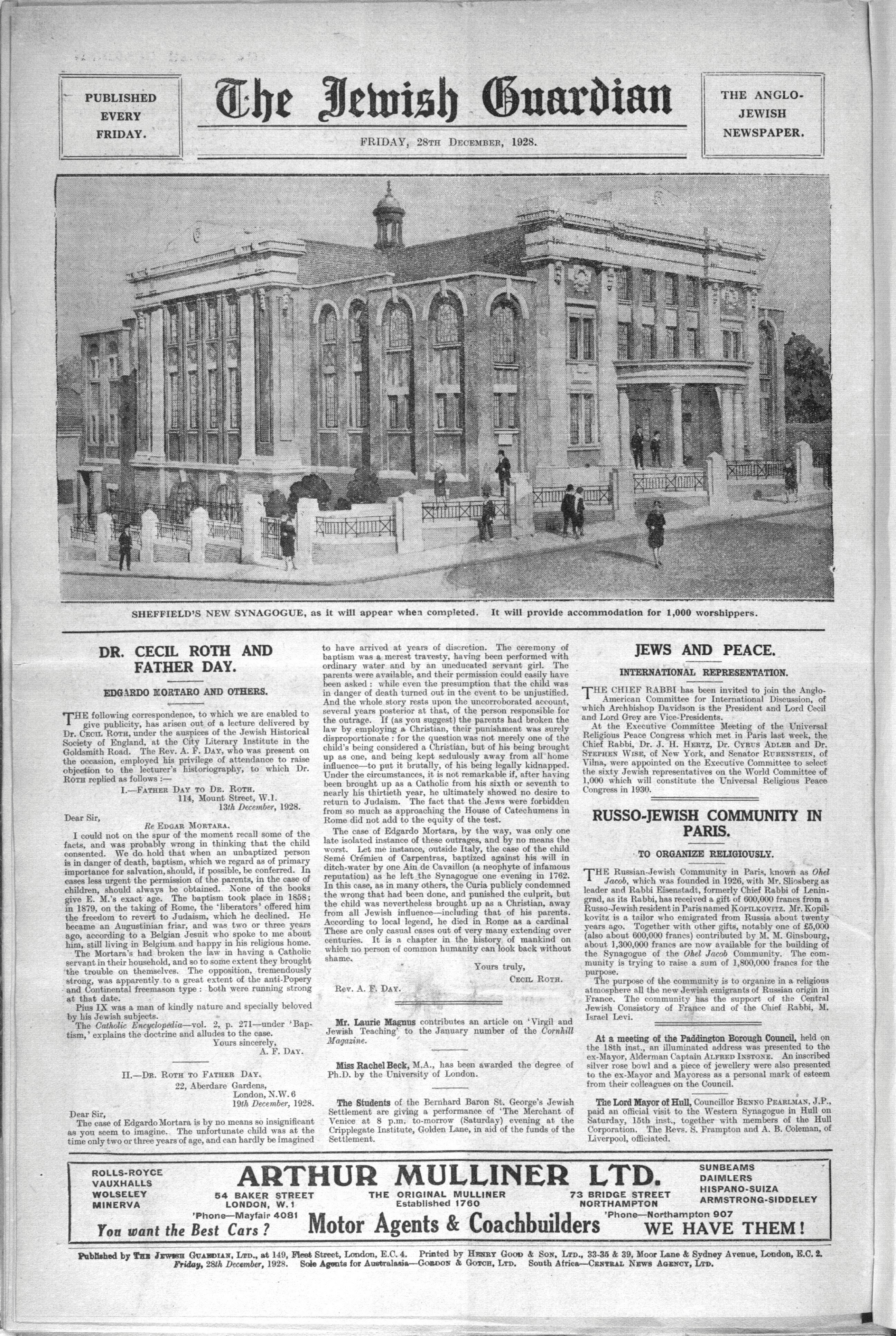 Back page (page 12) of The Jewish Guardian of 28 December 1928. With letters of Father Arthur Day and Cecil Roth about forced baptisms. A Jewish weekly newspaper, published in London from 1919 to 1931.